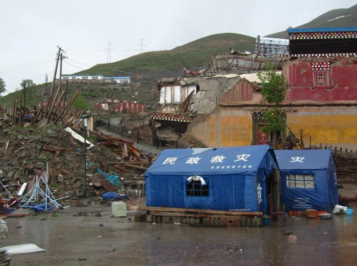 Ruins of Thrangu Monastery after the earthquake of April 14, 2010